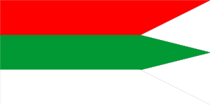 Flag of Radaškovičy